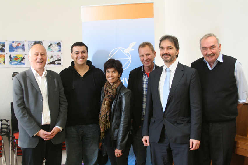 Winner of Bremer Friedenspreis 2011